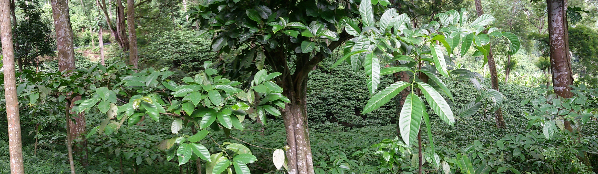 Coffee plantation on Gumitir mountain